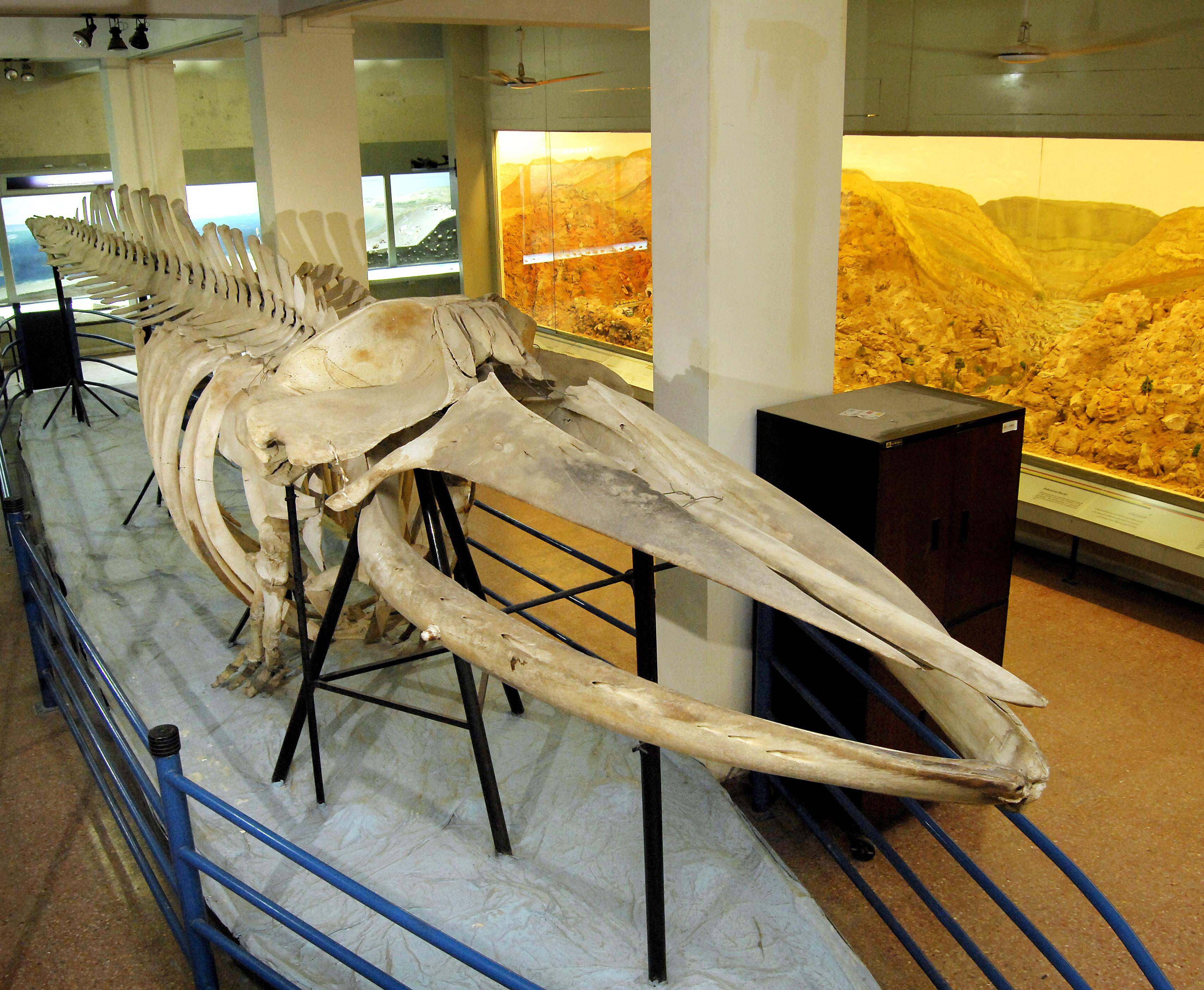 Pakistan Museum of Natural History This is a photo of a monument in Pakistan identified as the ICT-7